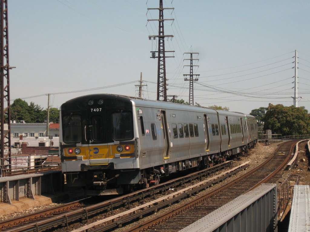 Long Island Rail Road train #108 departs Lynbrook en route to Babylon.